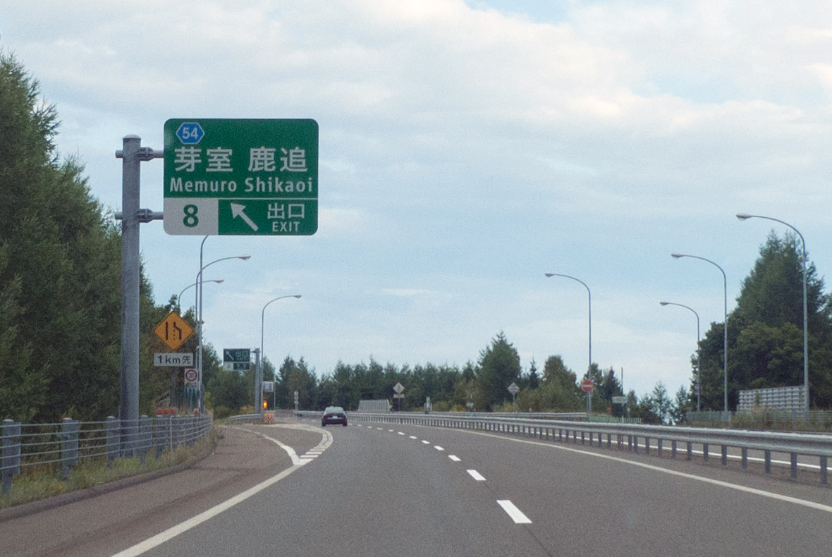 Memuro Interchange on the Doto Expressway in Memuro Town, Hokkaido, Japan